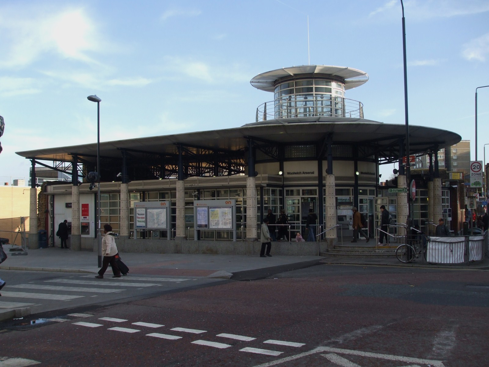 Woolwich Arsenal station building